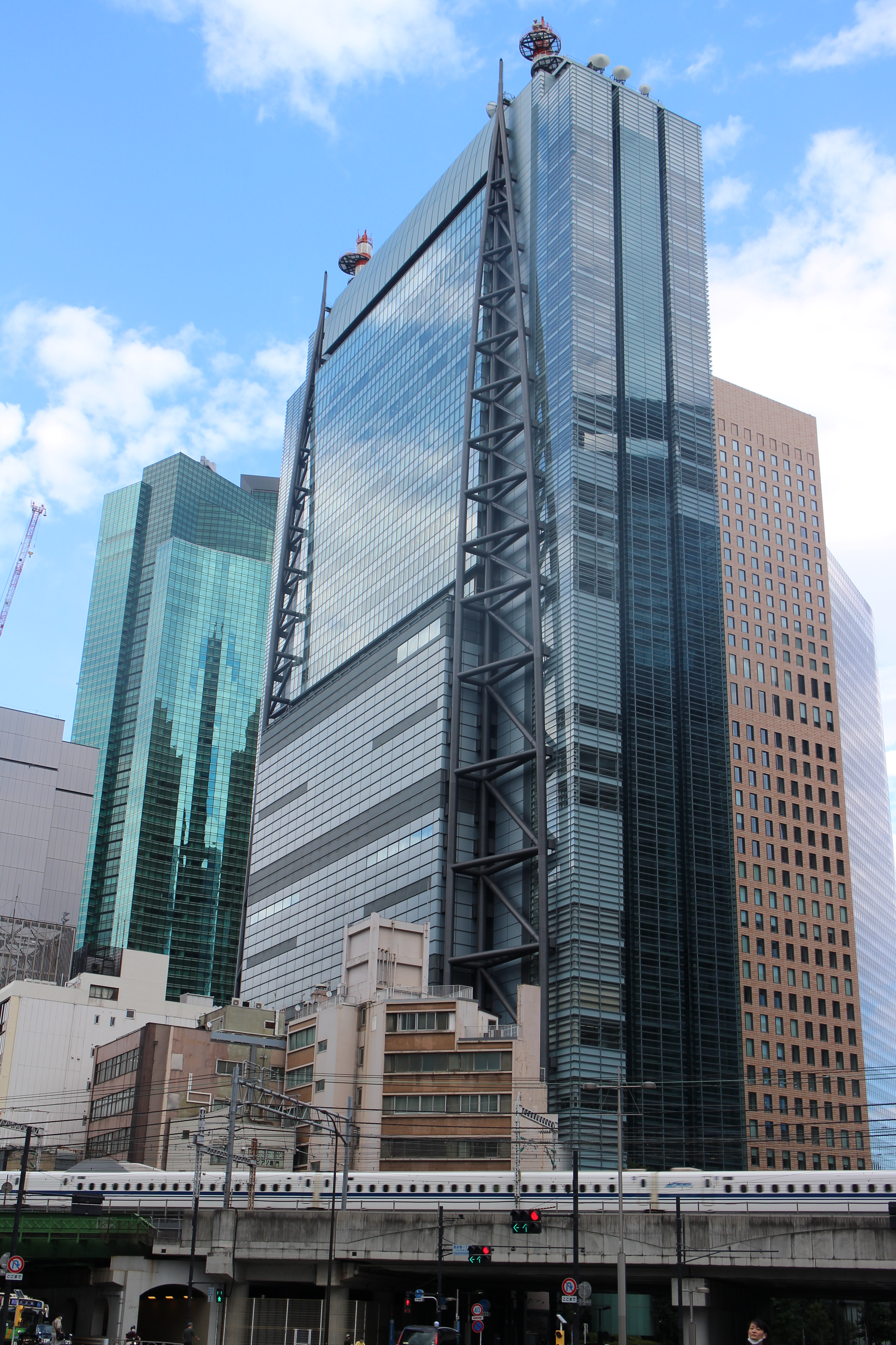 Shiodome NTV Tower